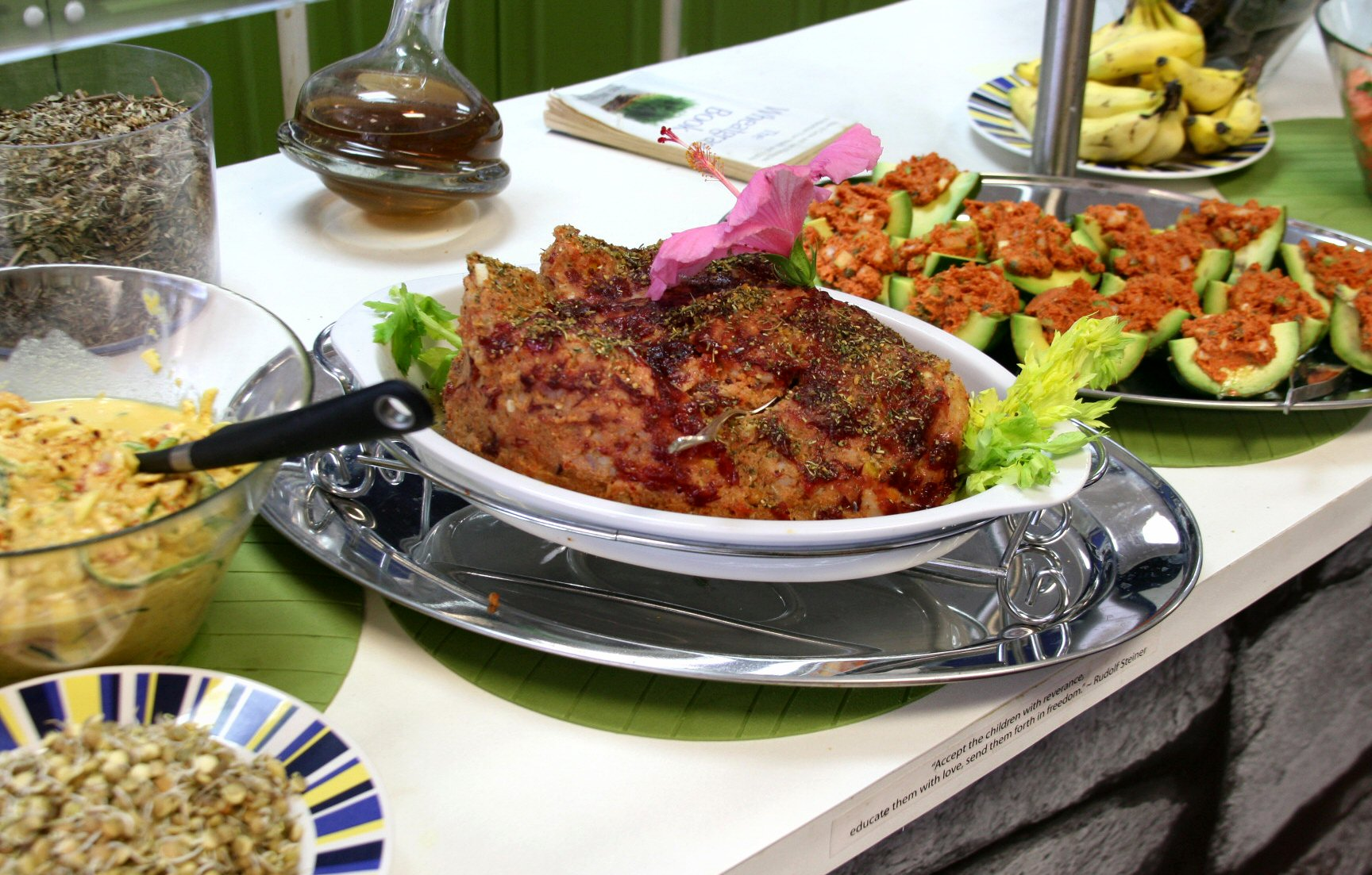 Raw Vegan Meatless Turkey served at during Thanksgiving of 2012.